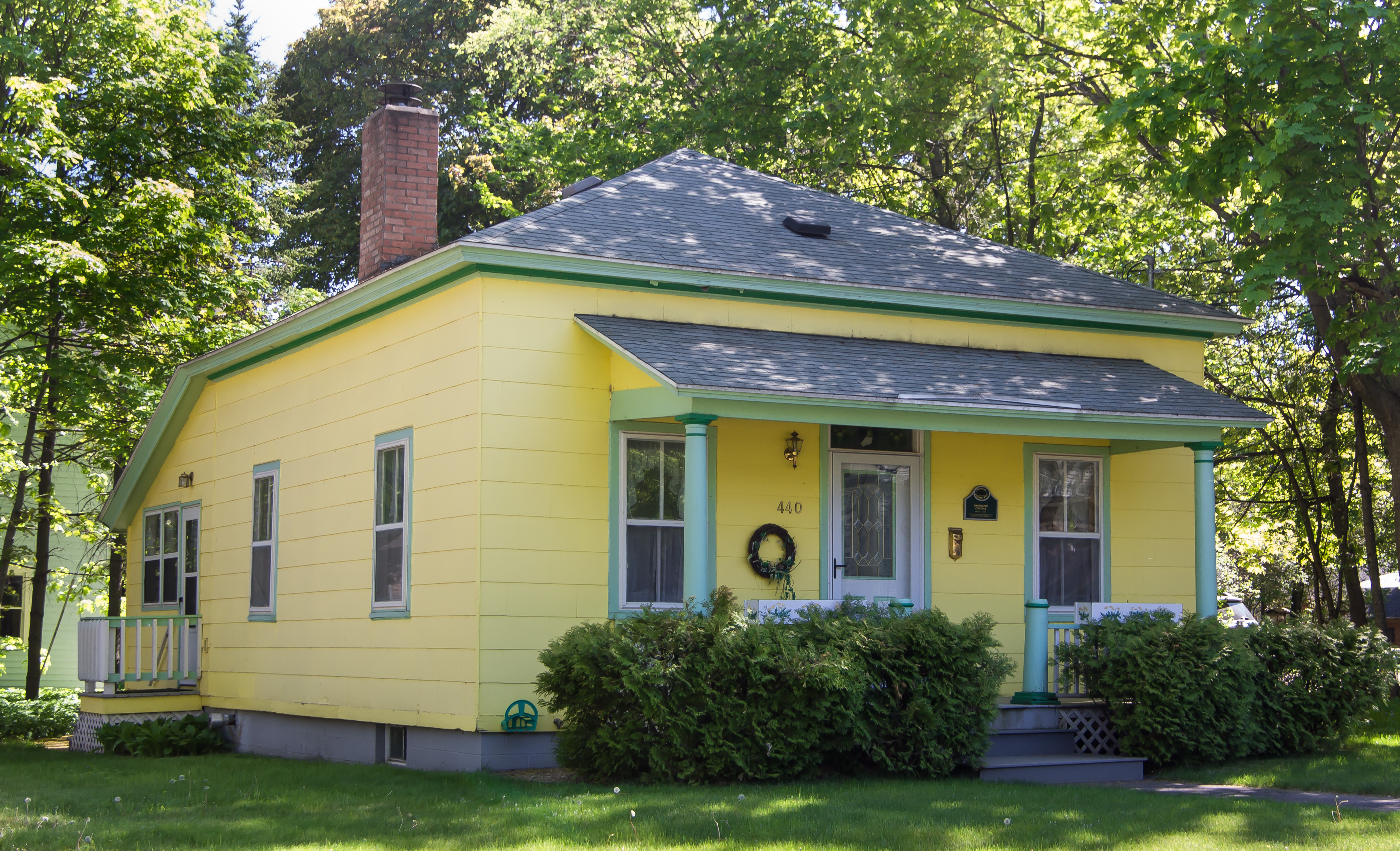 Dandelion Cottage